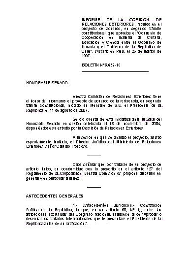 Comisiones